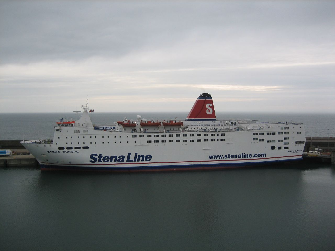 Stena Line ferry 'Stena Europe' in Rosslare Harbour Information about Stena Europe may be found at IMO 7901760. A ship can change name and flag state through time, but the IMO number remains the same through the hull's entire lifetime. As a result, it can be useful to identify a ship by using the IMO number.